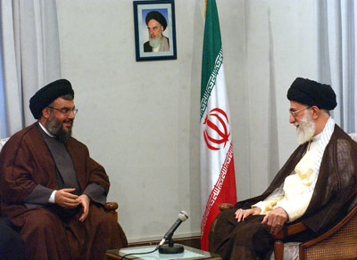 Seyyed Hassan Nasrallah and Ayatollah Seyyed Ali Khamenei the supreme leader of Iran in Hizbullah Secretary-General and his delegation meeting with Seyyed Ali Khamenei in 2005.